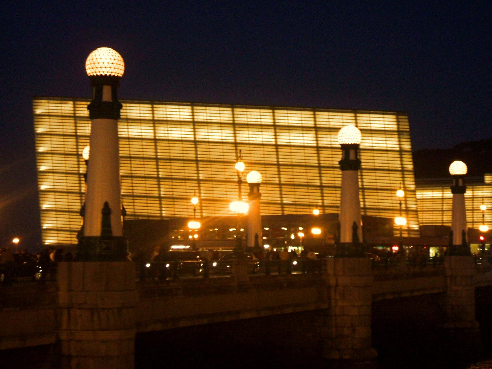 Palacio de Congresos y Auditorio Kursaal, San Sebastián (Guipúzcoa, Euskadi, España)